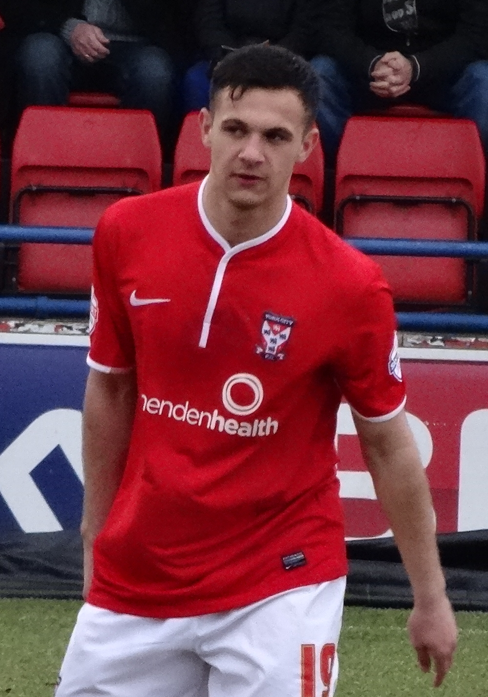 Diego De Girolamo playing for York City against Exeter City at Bootham Crescent, York on 28 February 2015